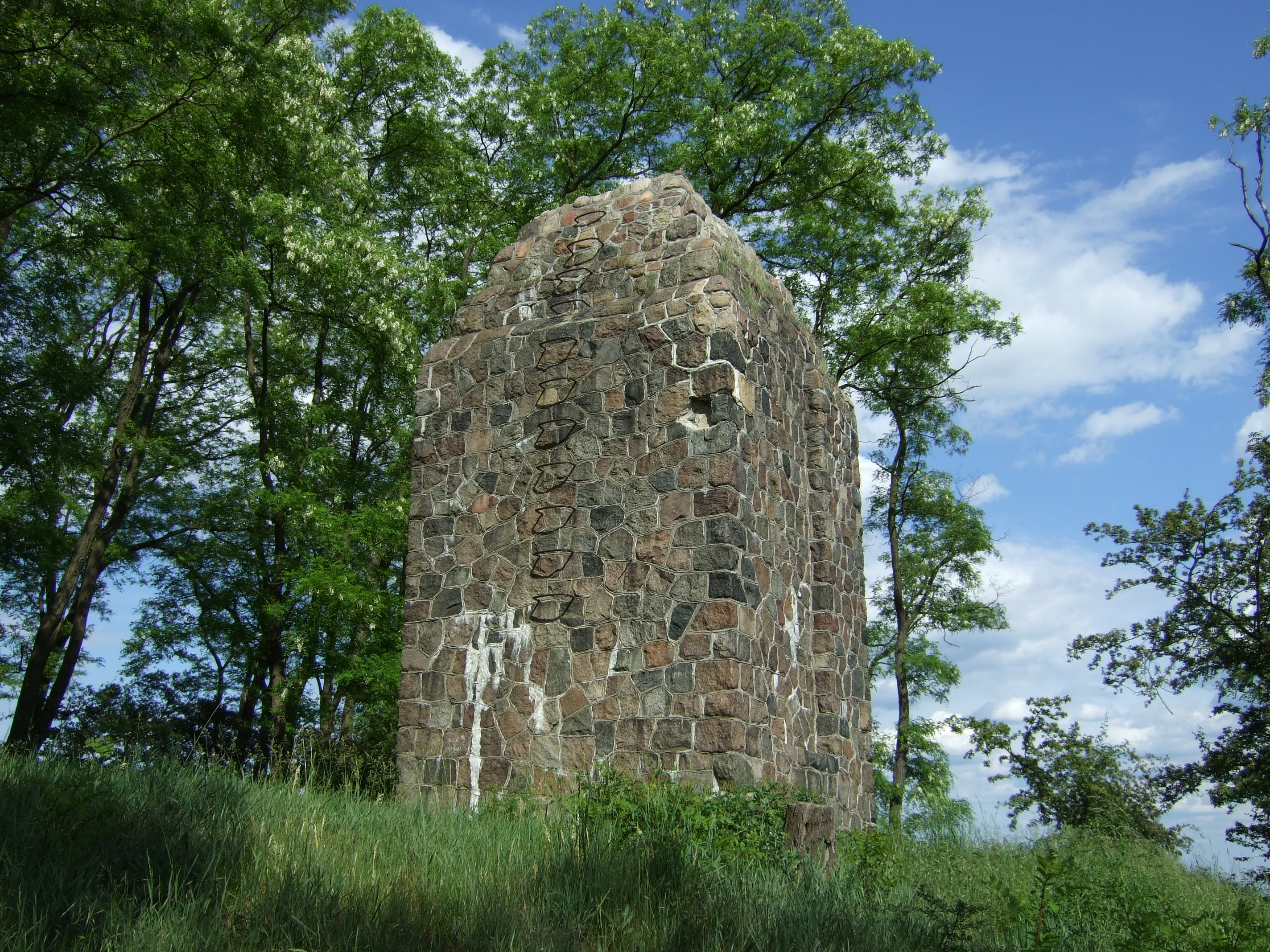 Bismarck memorial Bismarckturm in Booßen, Germany.